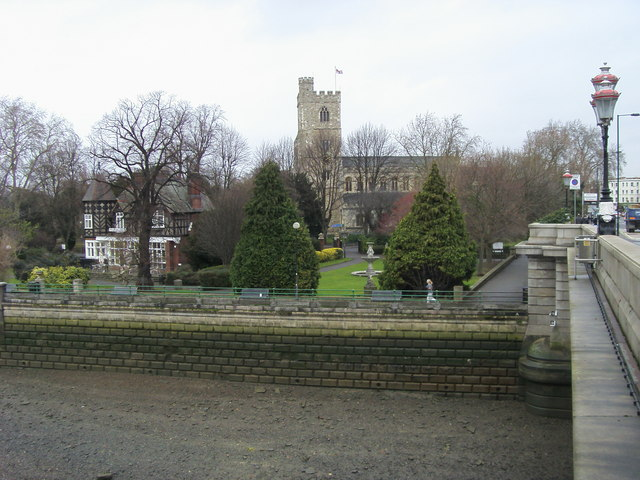 All Saint's Church Looking from Putney Bridge to All Saint's Church, Fulham.